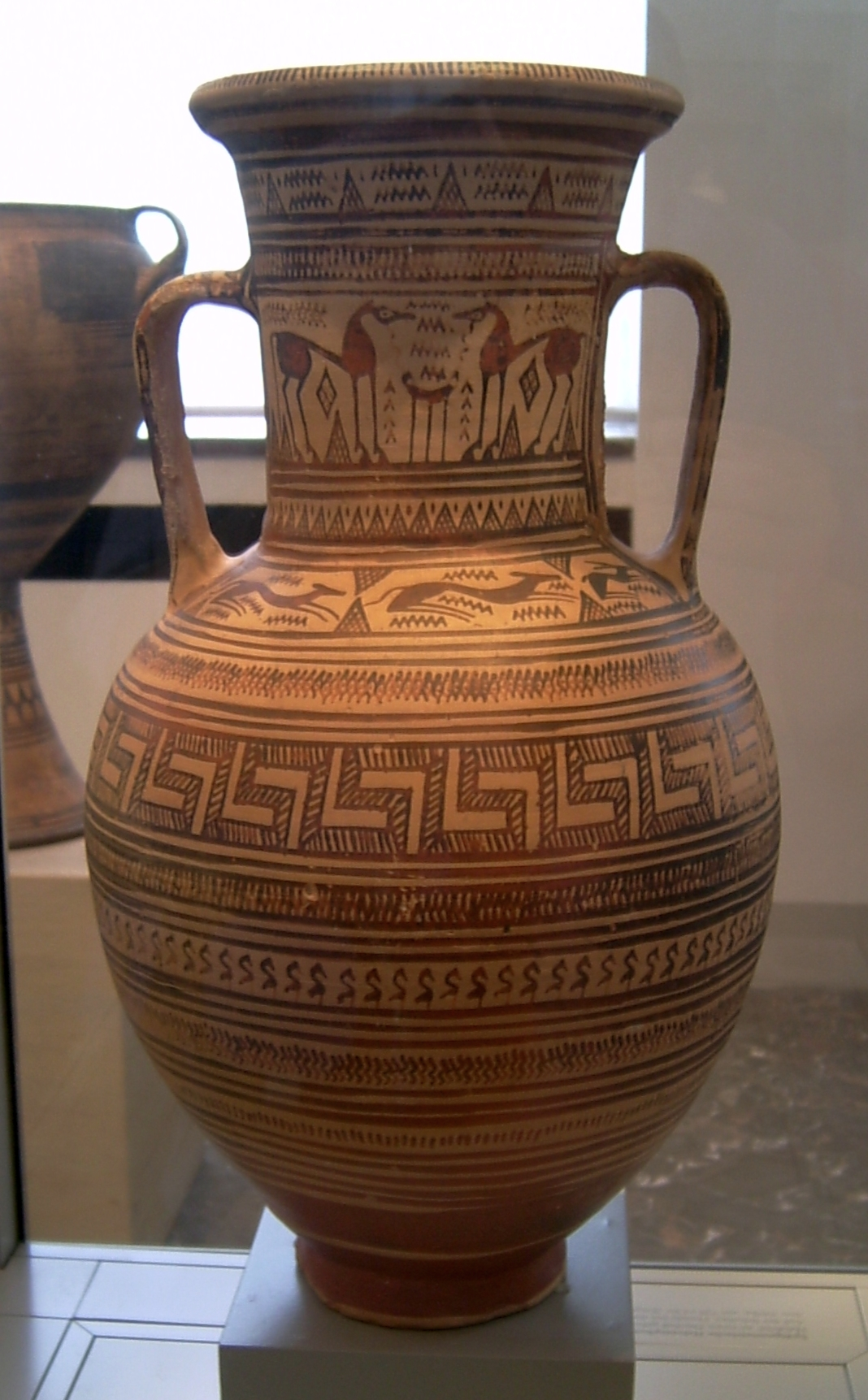 late gemetric attic amphora, Empedocles Painter, Neck: Horses on a Tripod, Shoulder: Dogs hunting Rabbits